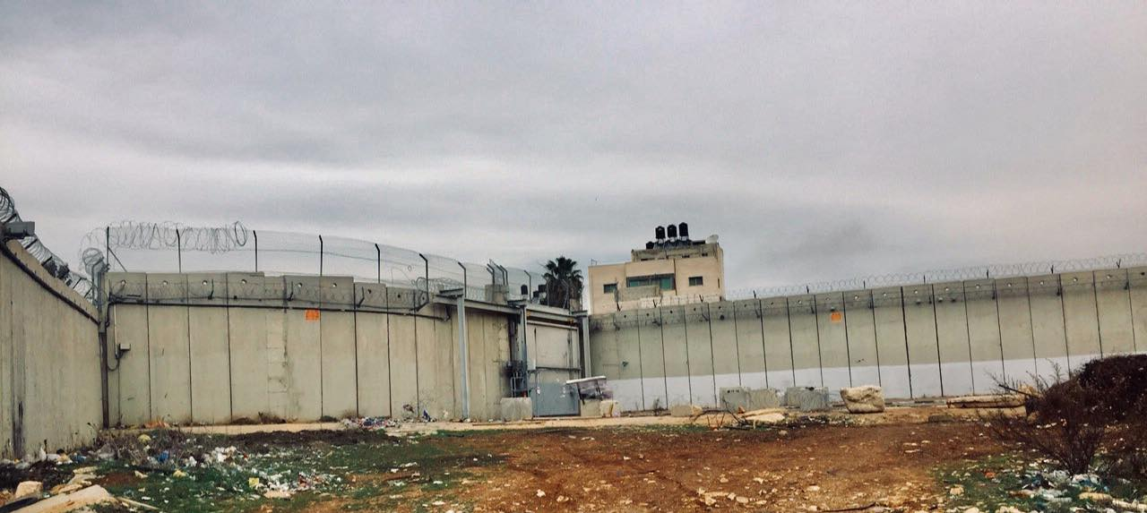 The separation wall between Beit Hanina and Ramallah